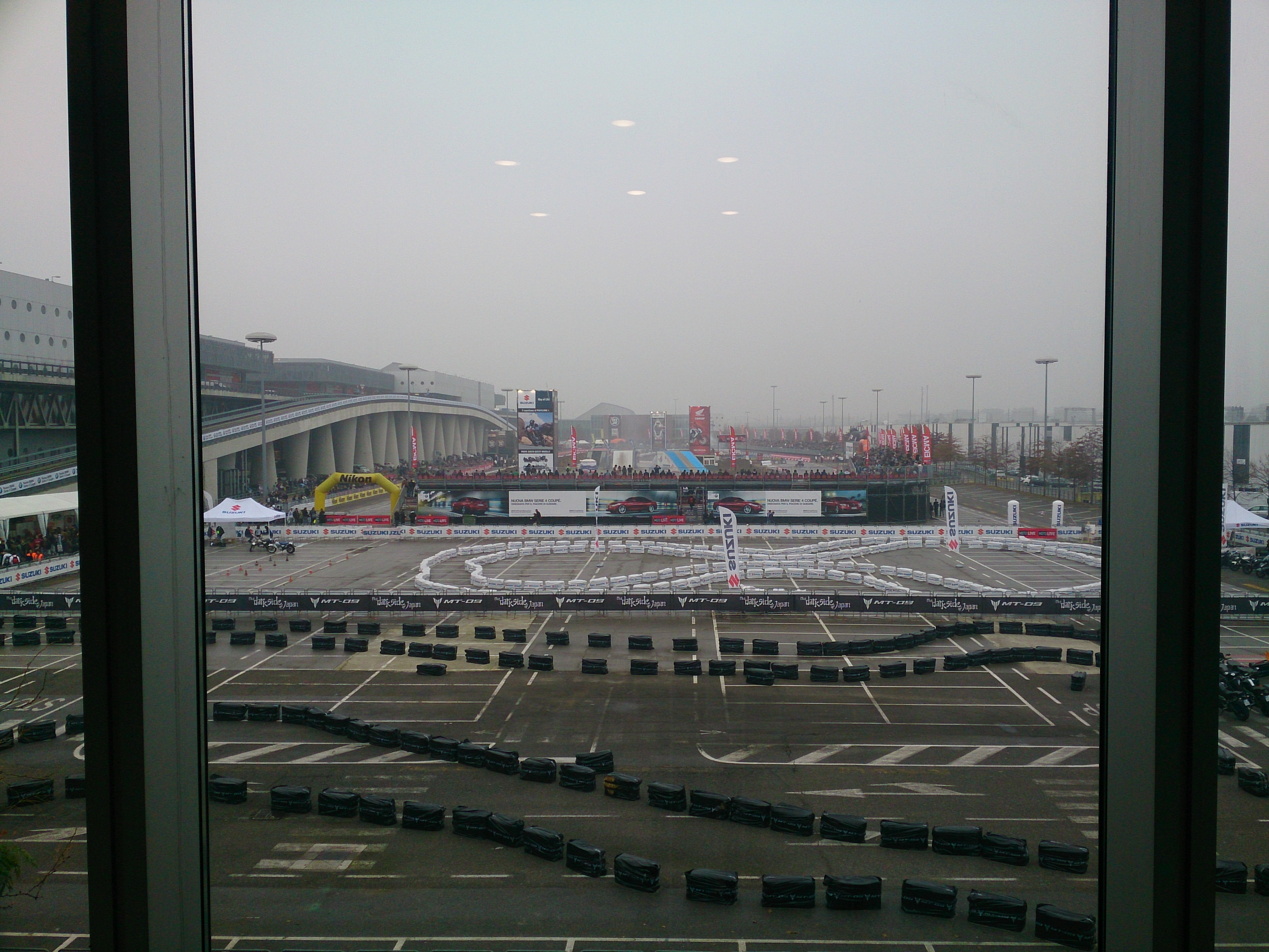 EICMA 2013 MotoLive